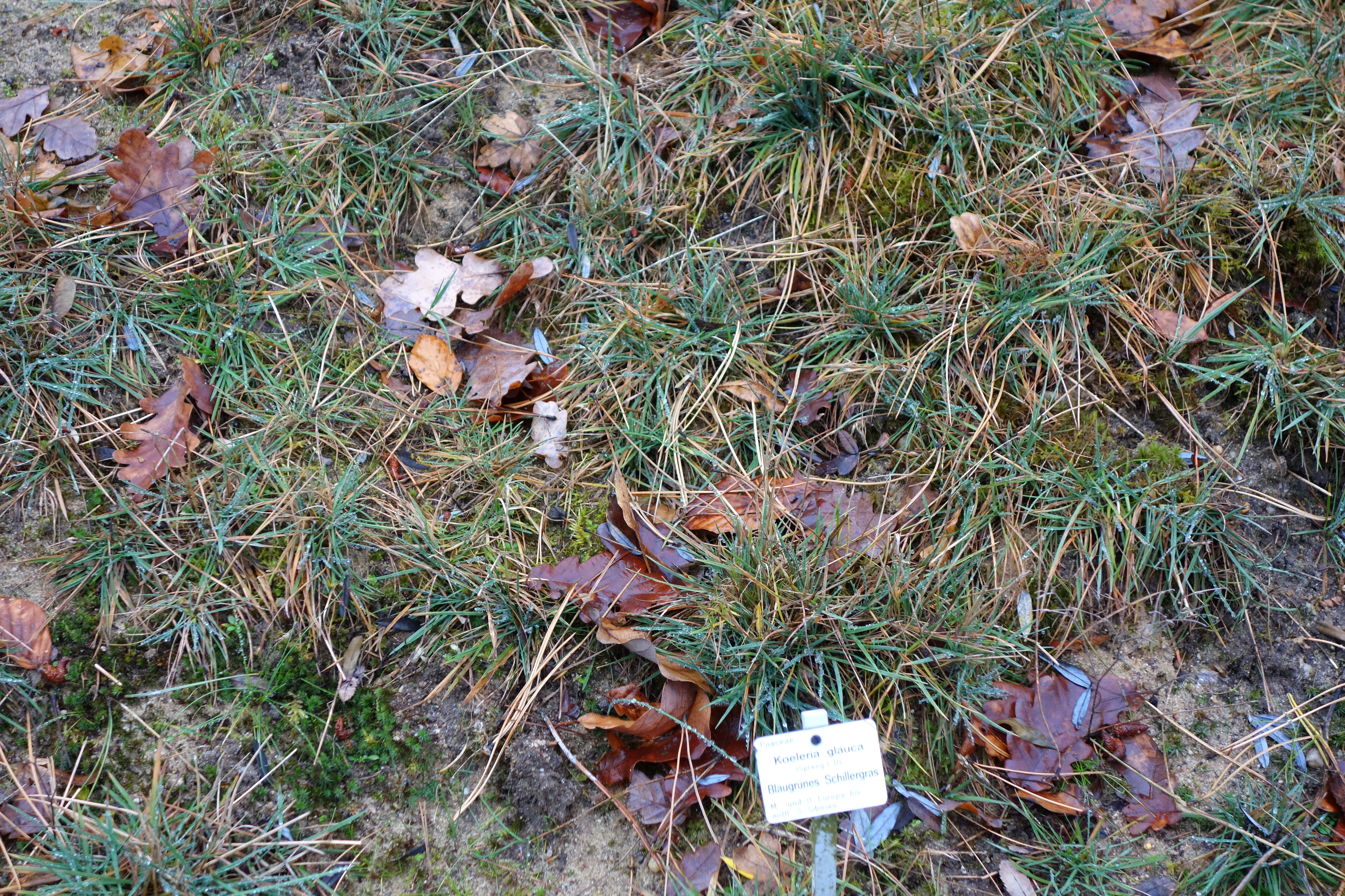 Botanical specimen in the Botanischer Garten, Dresden, Germany.